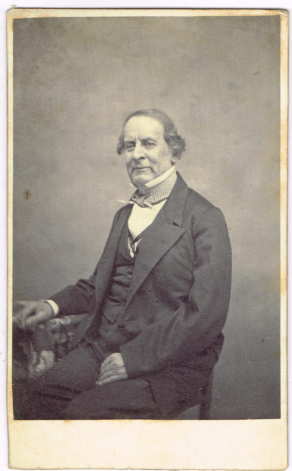 Benjamin Ogle Tayloe of Washington DC